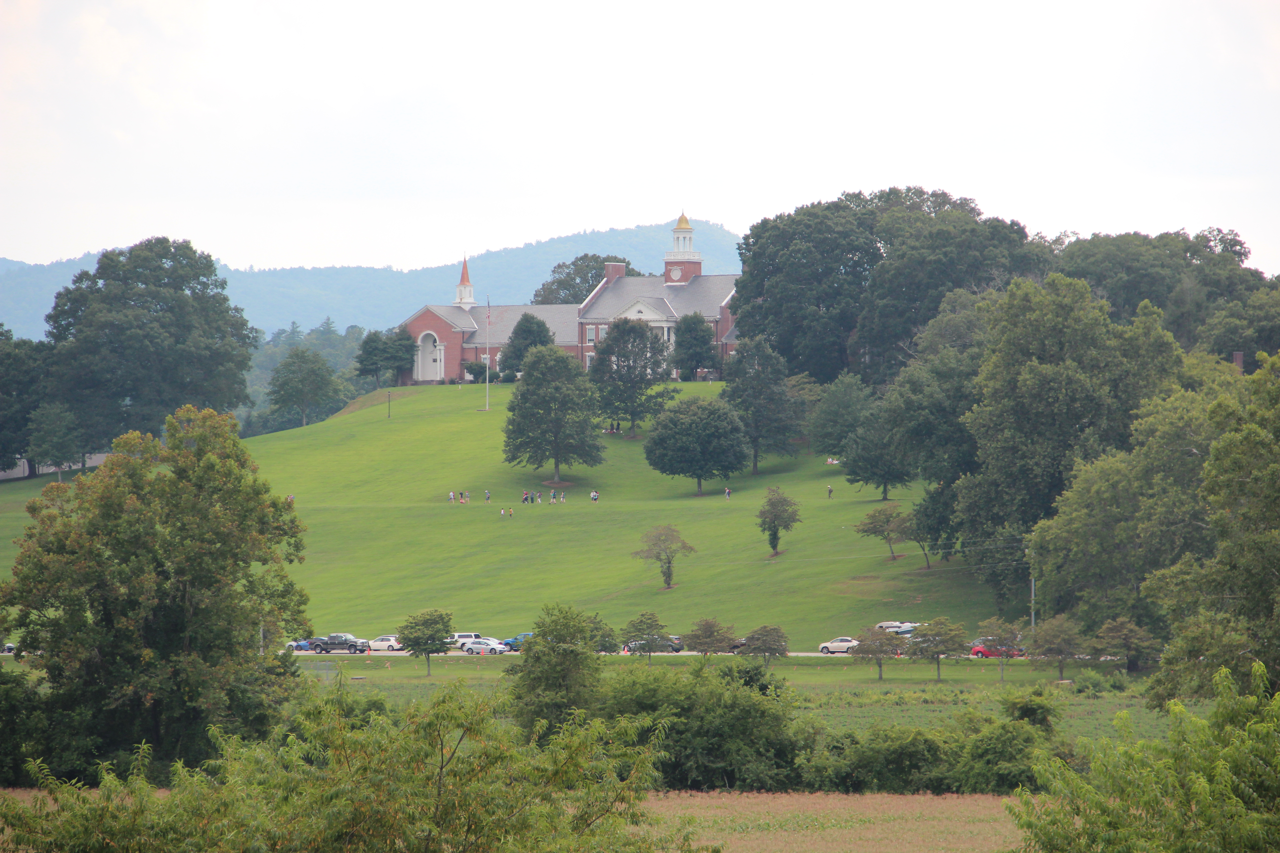 Rabun Gap-Nacoochee School, Rabun County, around 3:18pm